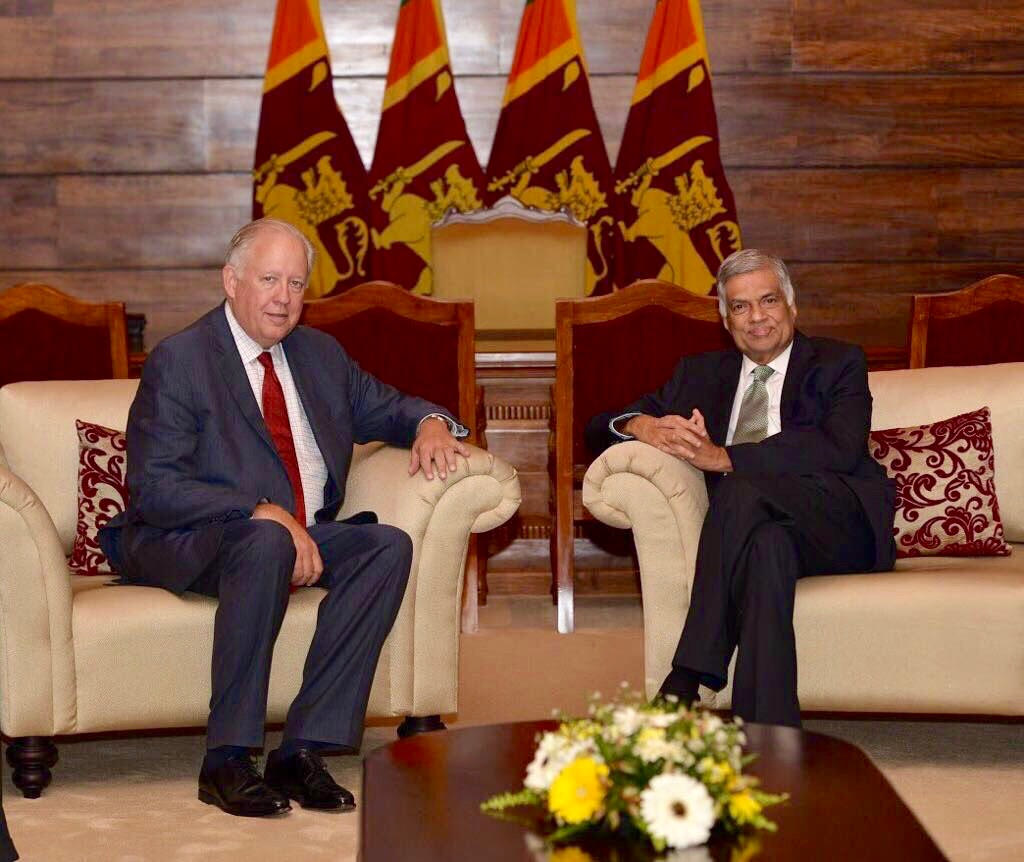 Under Secretary of State Thomas Shannon meets with Prime Minister of the Democratic Socialist Republic of Sri Lanka Ranil Wickremesinghe in Sri Lanka on November 6, 2017.